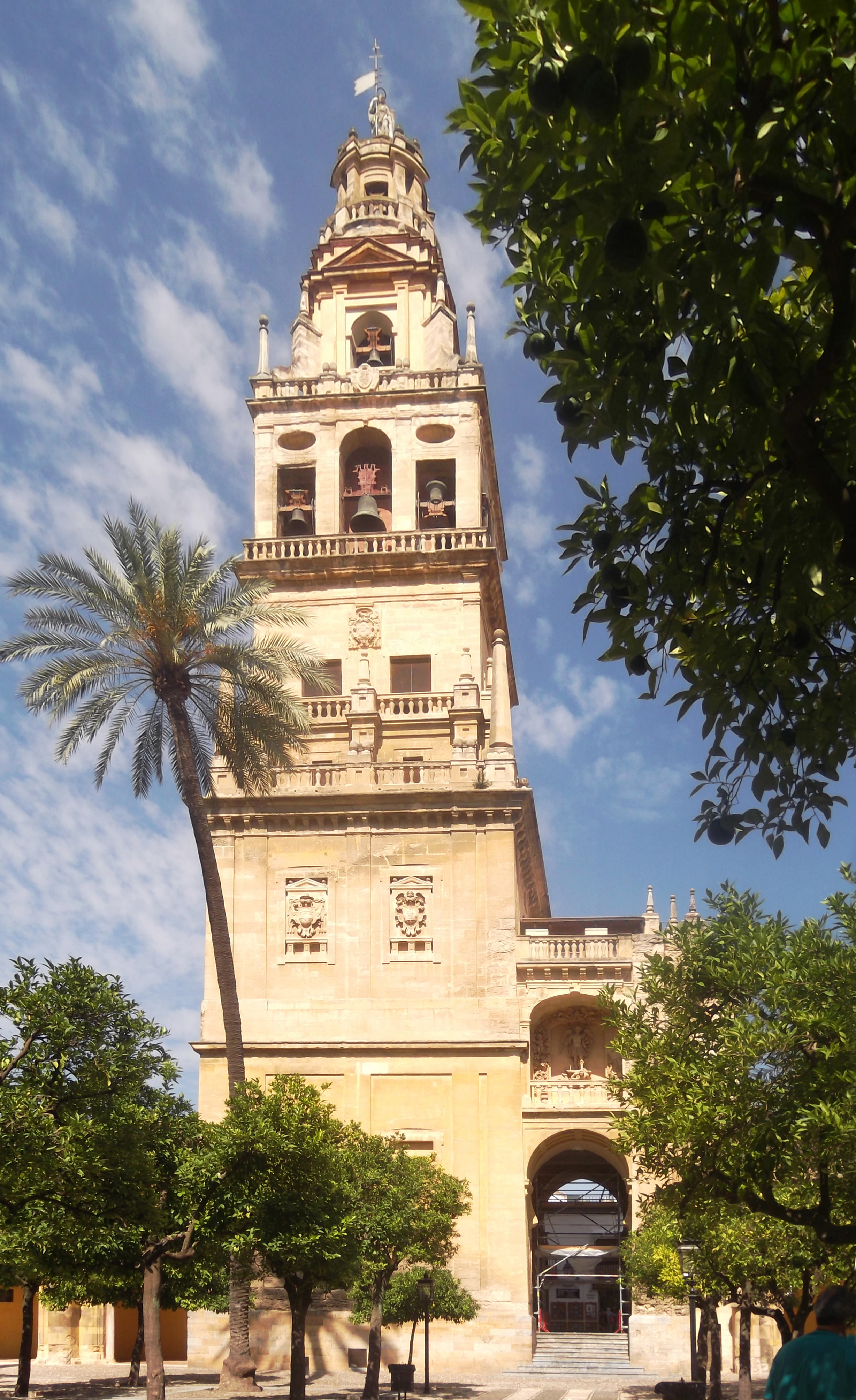 Mosque–Cathedral of Córdoba Beacon